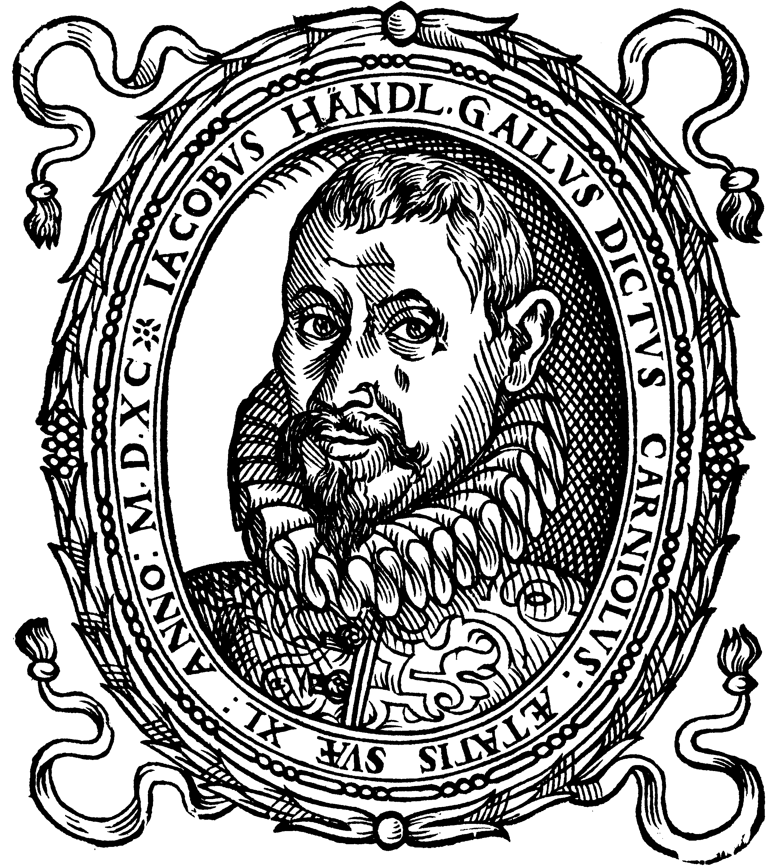 Portrait drawing of Jakob Petelin Gallus from 1916, based on a woodcut portrait of Jakob Petelin Gallus that was published in the tenor-voice of Opus musicum, book IV (1590).